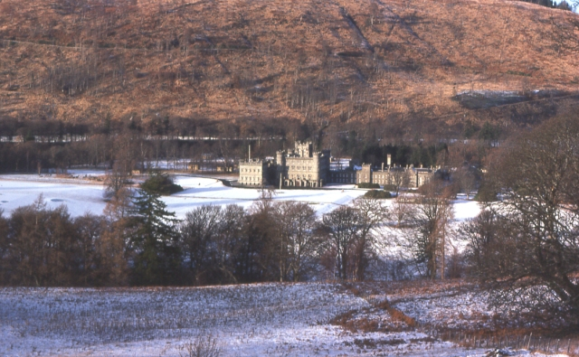 Taymouth Castle. Viewed from the main road from Aberfeldy to Kenmore